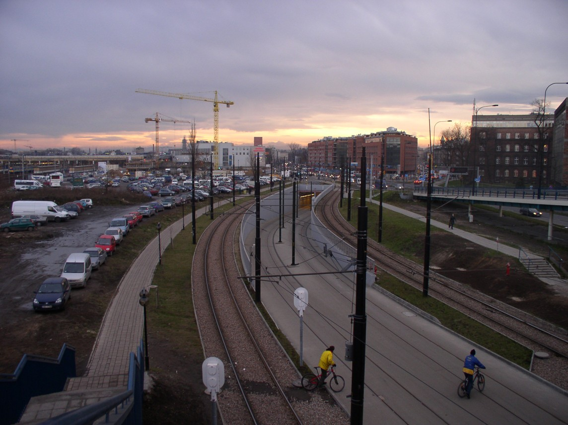 The beginning of the tram tunel in Cracow near the railway station.